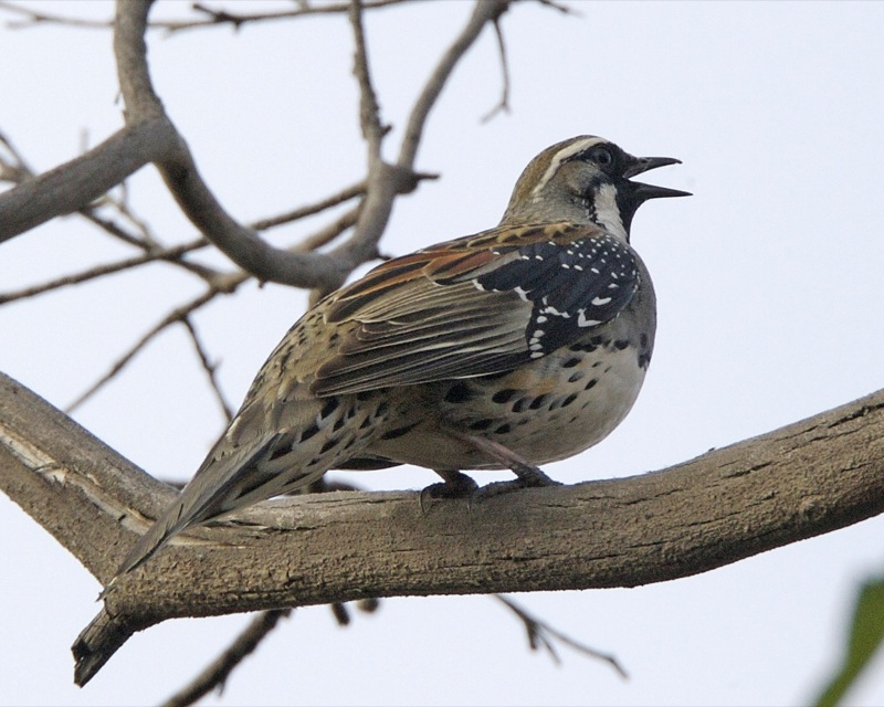 Spotted Quail-thrush Cinclosoma punctatum nom., Cinclosoma punctatum punctatum Brisbane Ranges, Victoria, Australia 10th. November 2008 690V6168